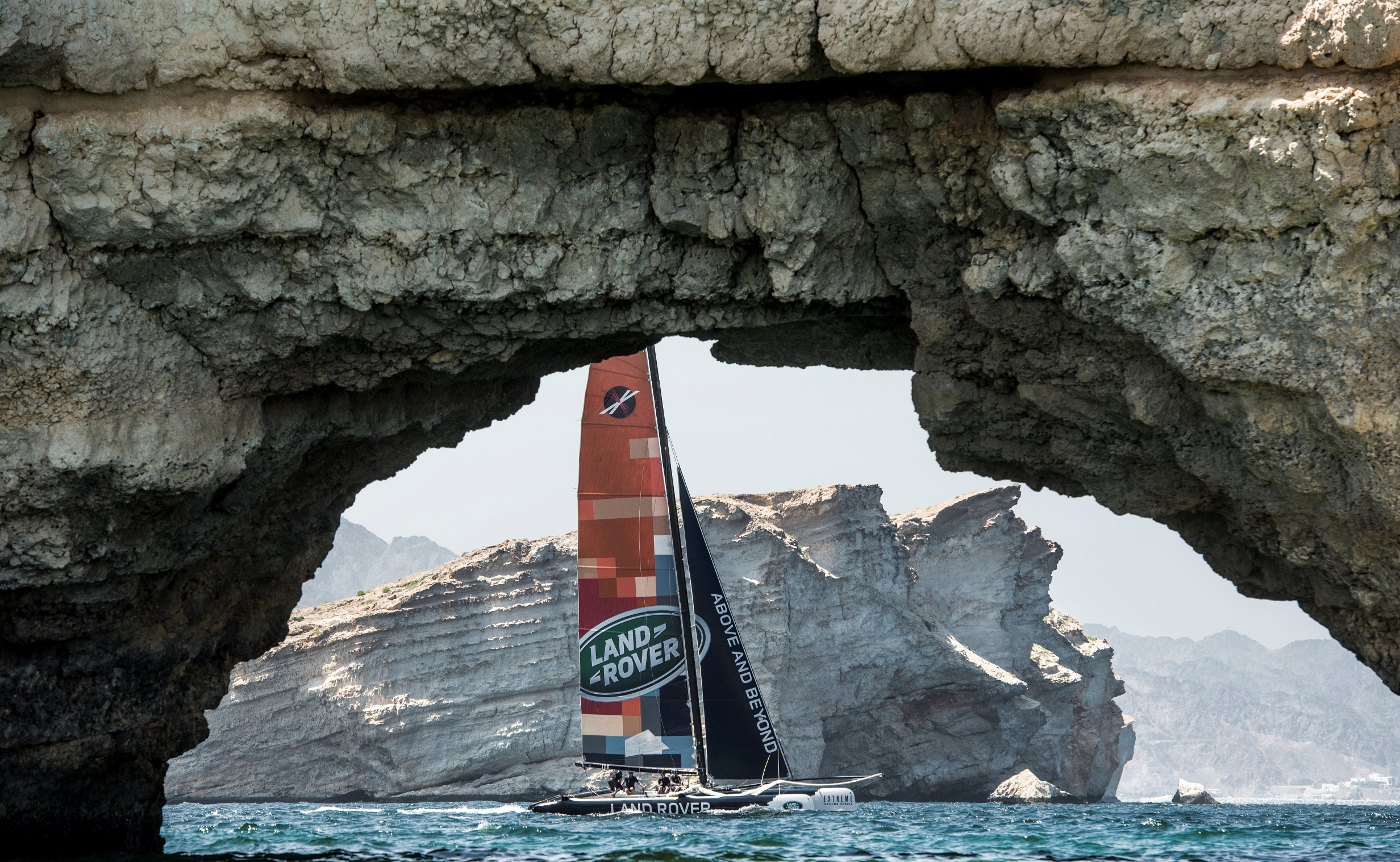 Land Rover Oman has been at the heart of world-class sailing action in the waters off Muscat, as the premium car brand hosted, as global Series Main Partner, the award-winning Extreme Sailing Series™. Discover more here: bit.ly/OMHVE9